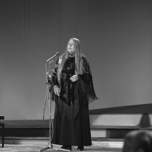 Mariza Koch at a rehearsal for the Eurovision Song Contest 1976.